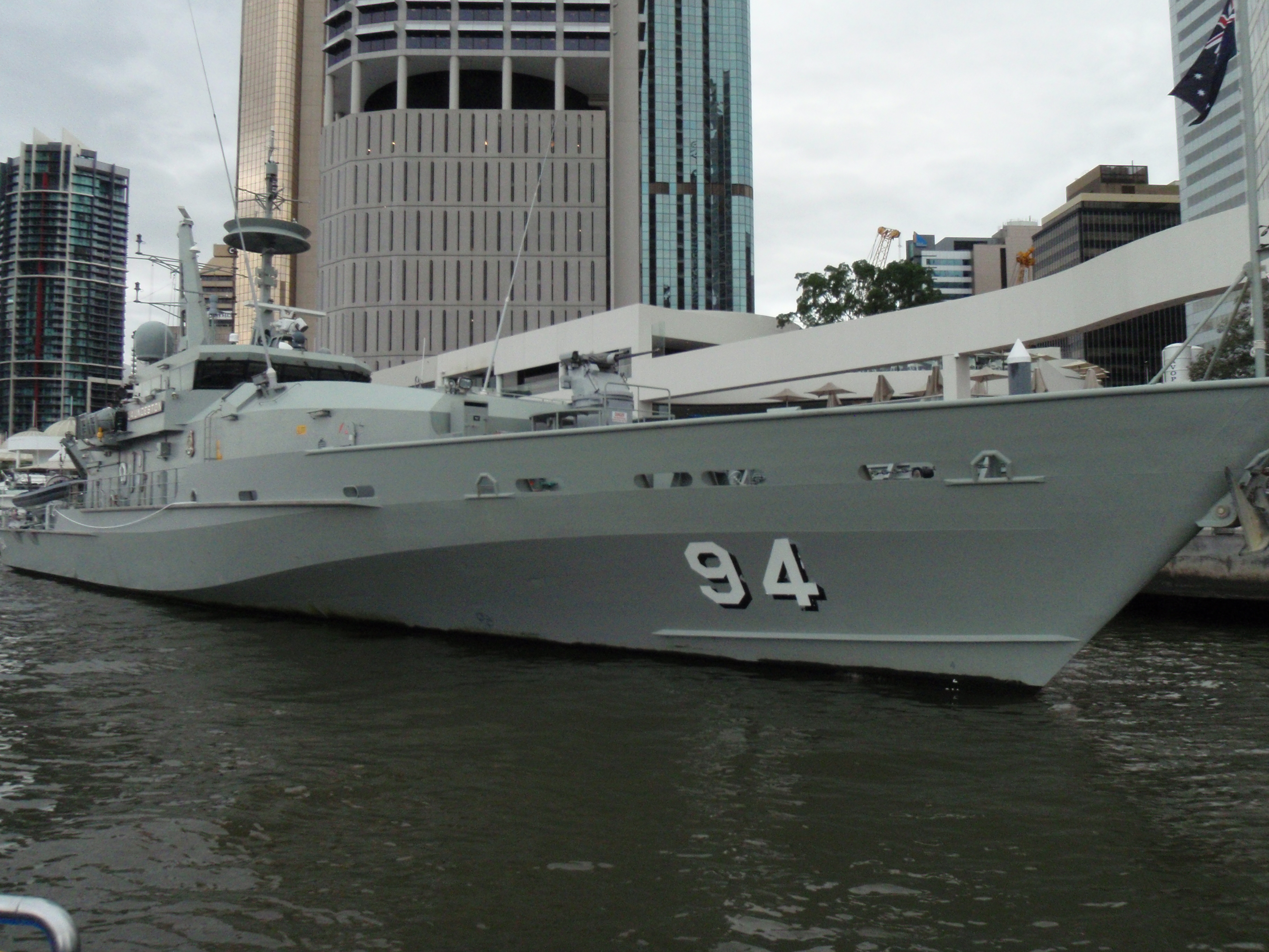 The HMAS Launceston (ACPB 94) docked in Brisbane, next to the Riverside CityCat Ferry terminal.